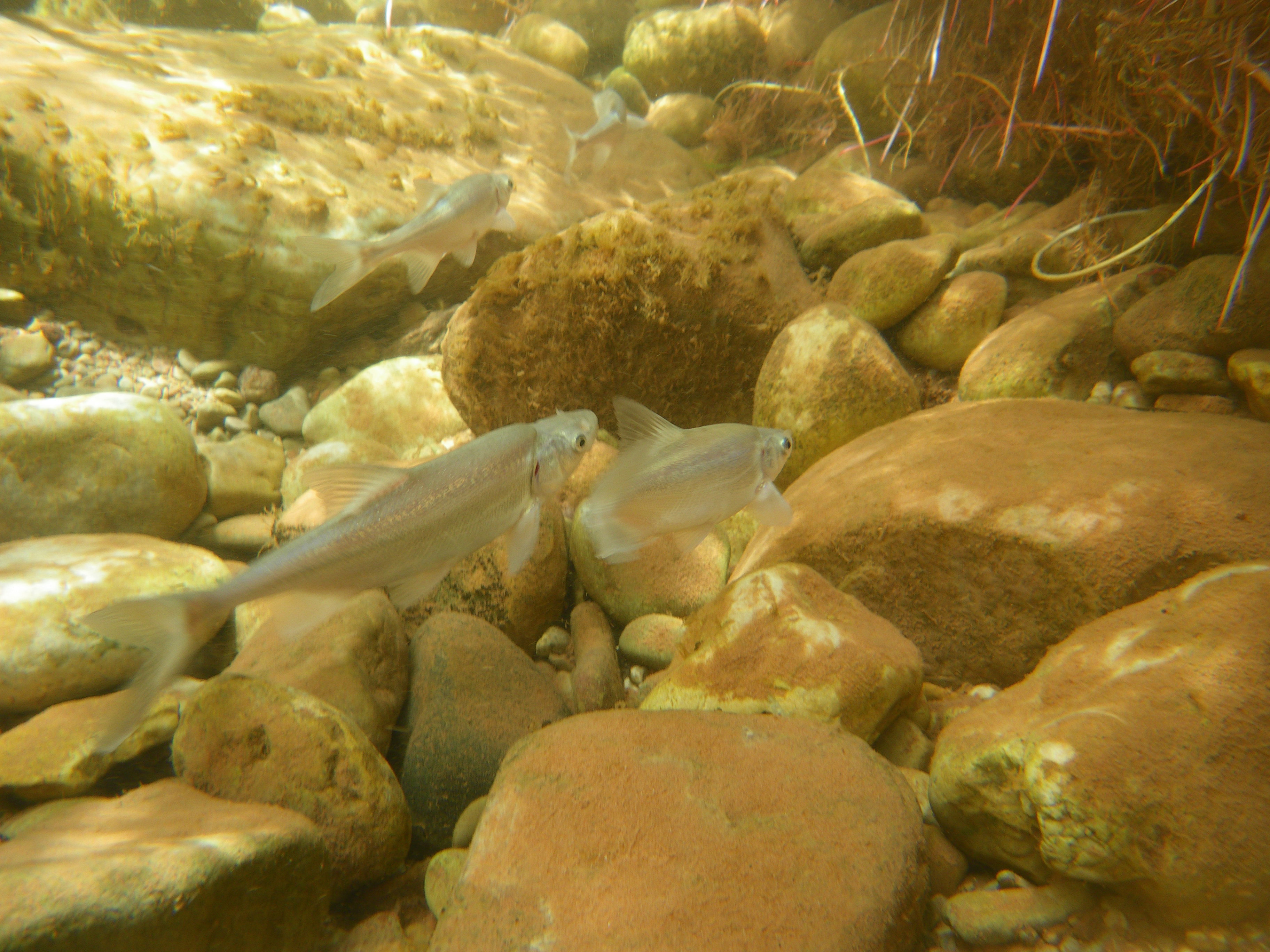 Young humpback chub (Gila cypha) swimming in Shinumo Creek, inside Grand Canyon National Park soon after release. They are part of a reintroduction program of this federally protected specie with the goal to establish a second population, after they became extinct everywhere except a small part of Little Colorado River.